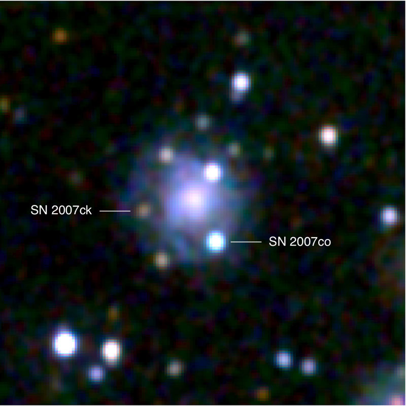 Galaxy MCG +05-43-16 with two supernovae: SN 2007ck and SN 2007co in visible light by Swift satelite.